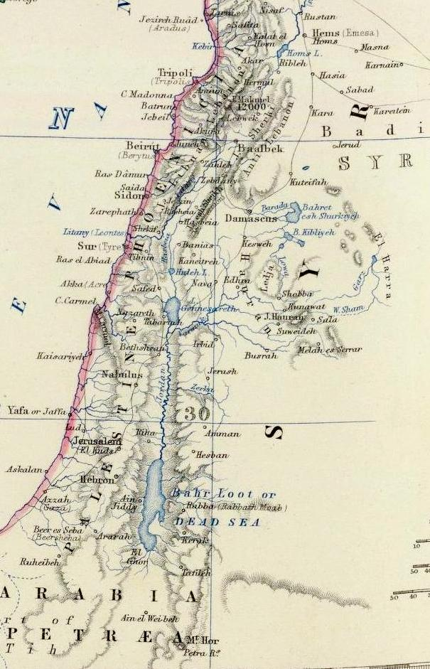 Turkey in Asia, Asia Minor, and Transcaucasia. By Keith Johnston, F.R.S.E. Engraved & printed by W. & A.K. Johnston, Edinburgh. William Blackwood & Sons, Edinburgh & London, (1861)